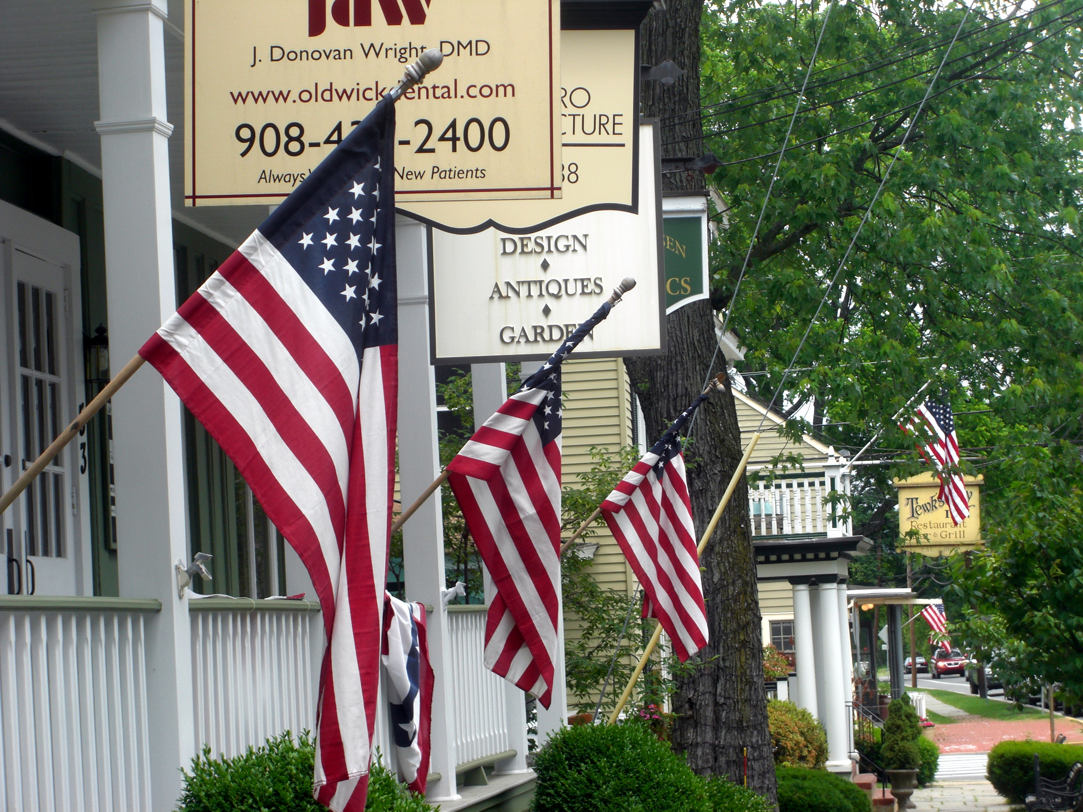 Oldwick NJ